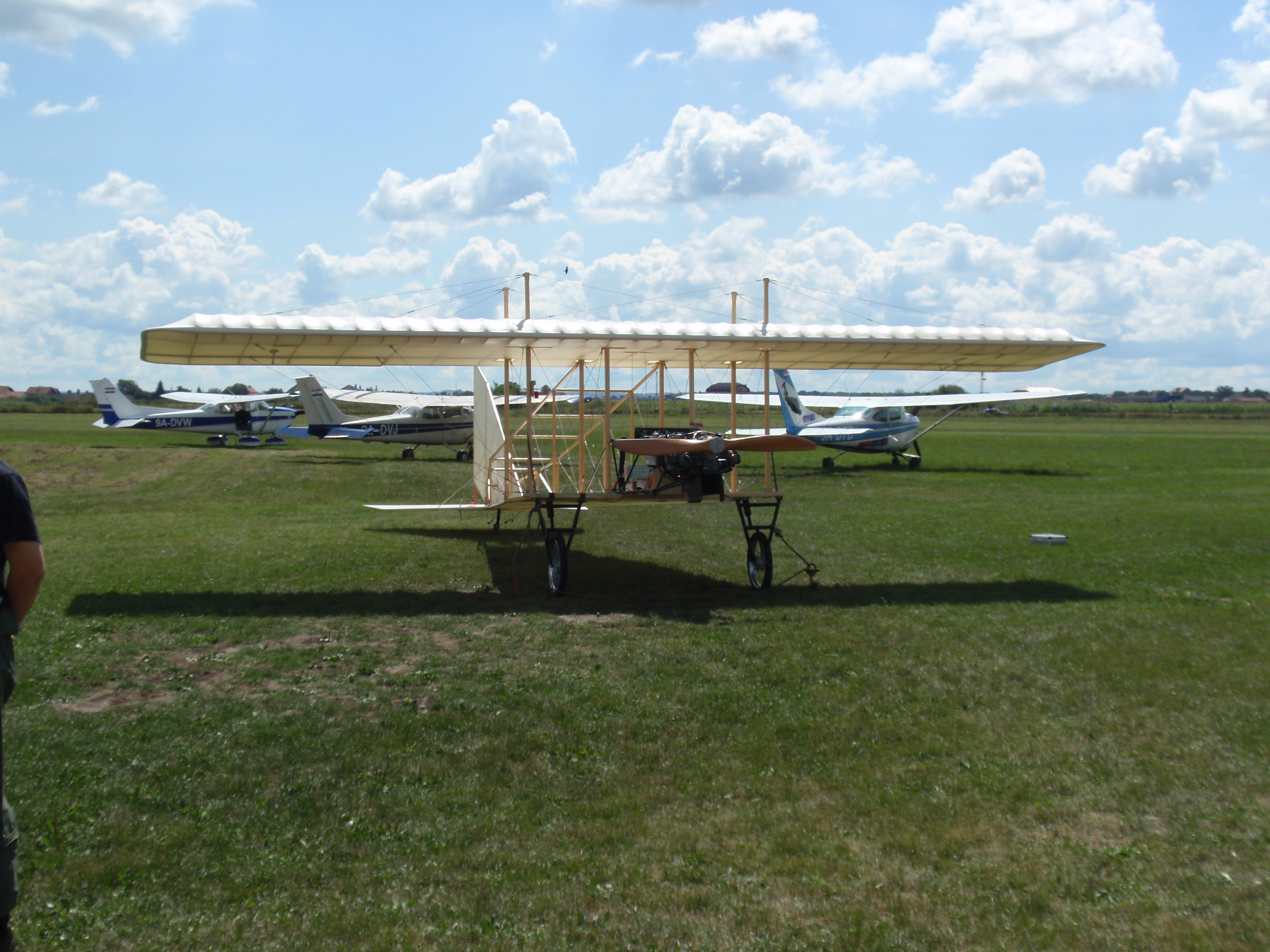 Replica of Penkala's aircraft from 1910